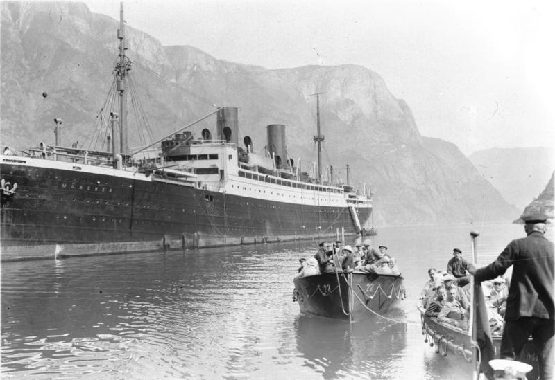 Polar journey by the steamer "München". - Disembarking in Gudvangen 17 July - 12 August 1925 Information added by Wikimedia users.